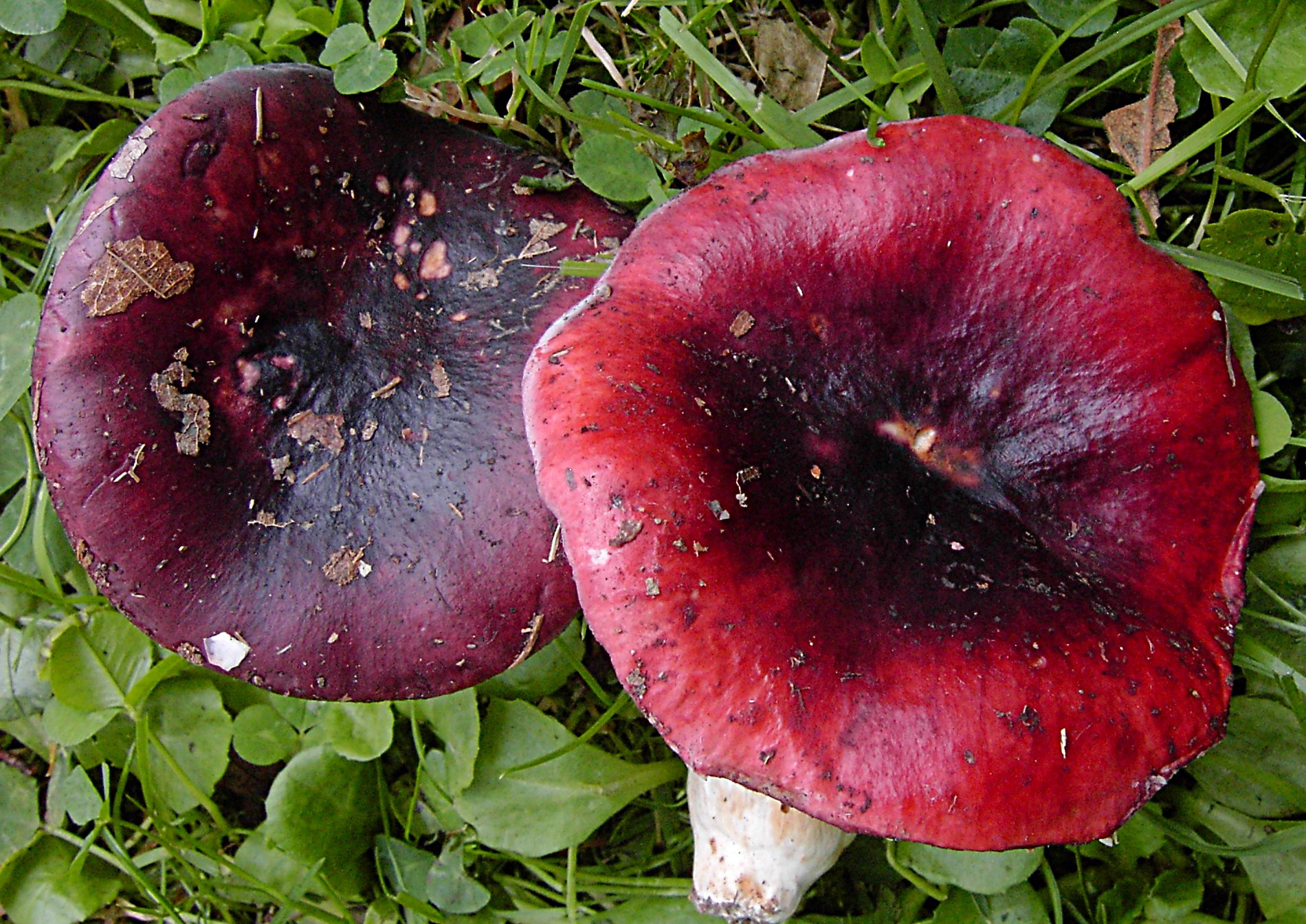 Russula atropurpurea on the left side a Russula atrop. with typical purple color, on the right side one with more reddish color